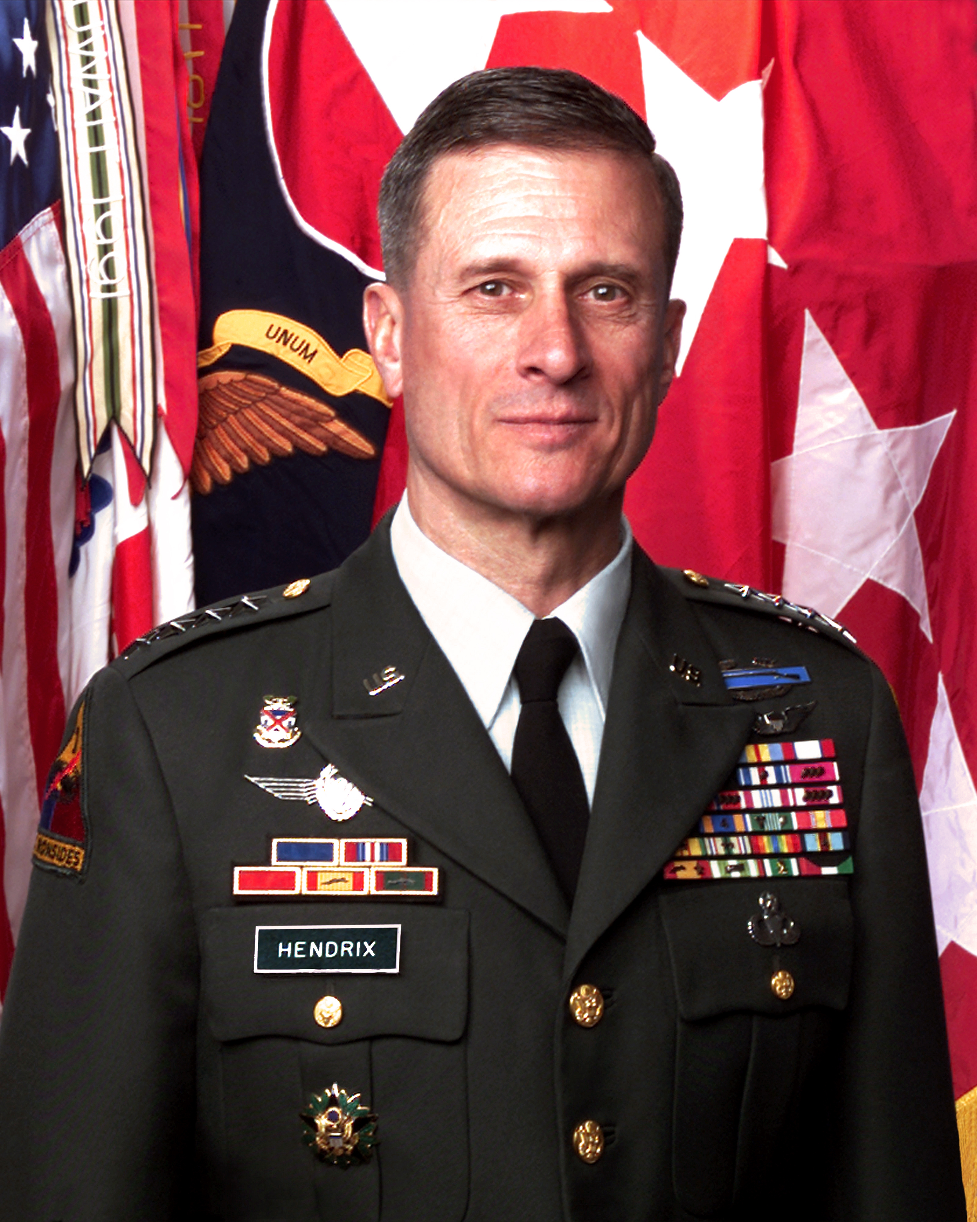 Photo of General John W. Hendrix while he was FORSCOM Commander.